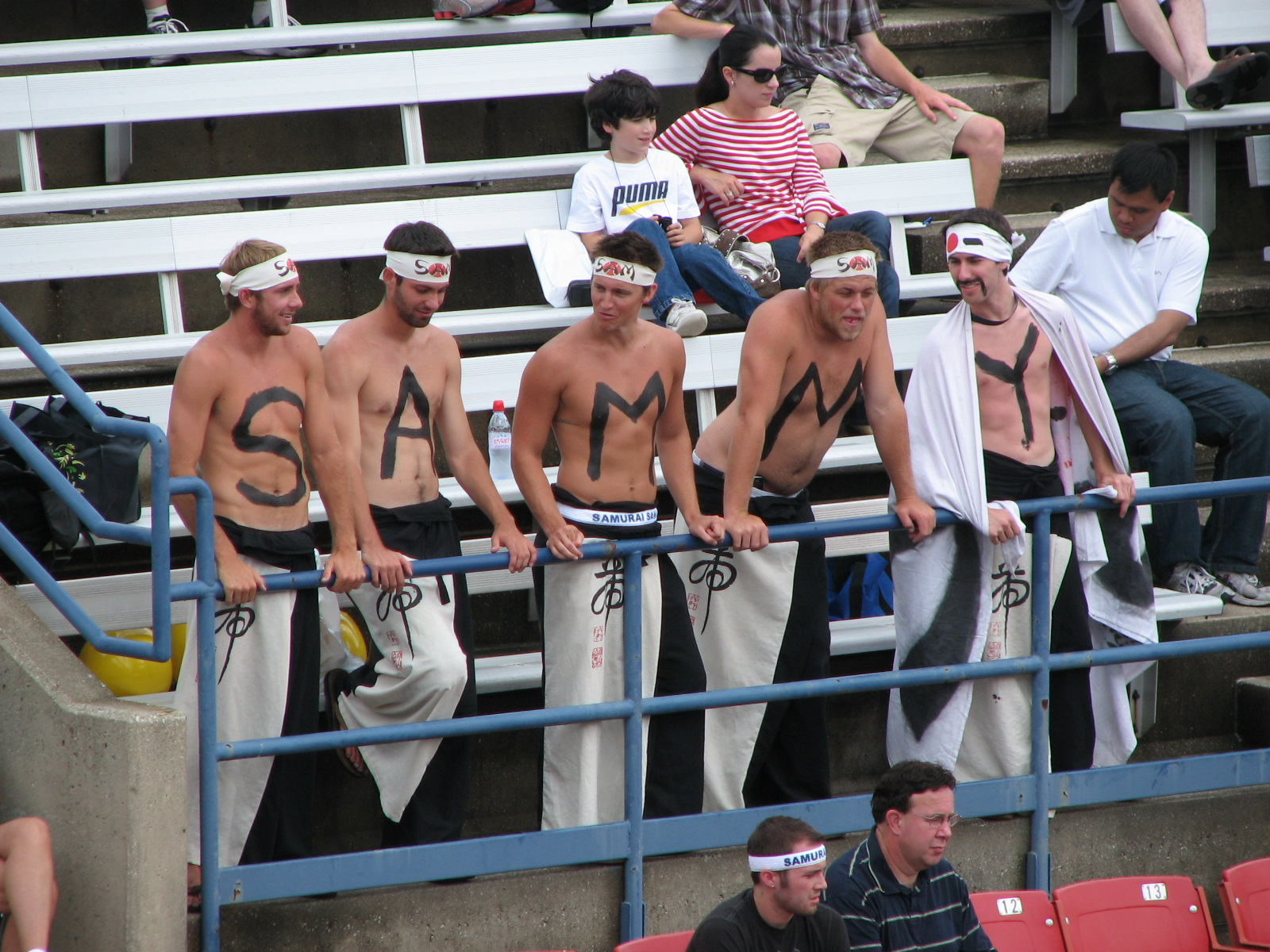 Sam Querrey's fan base, the Samurai, during the 2009 Indianapolis Tennis Championships